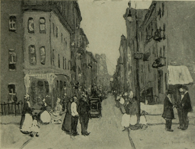 Black and white reproduction of Mott Street New York by Jane Peterson from the 1916 New York Watercolor Club Exhibition catalog